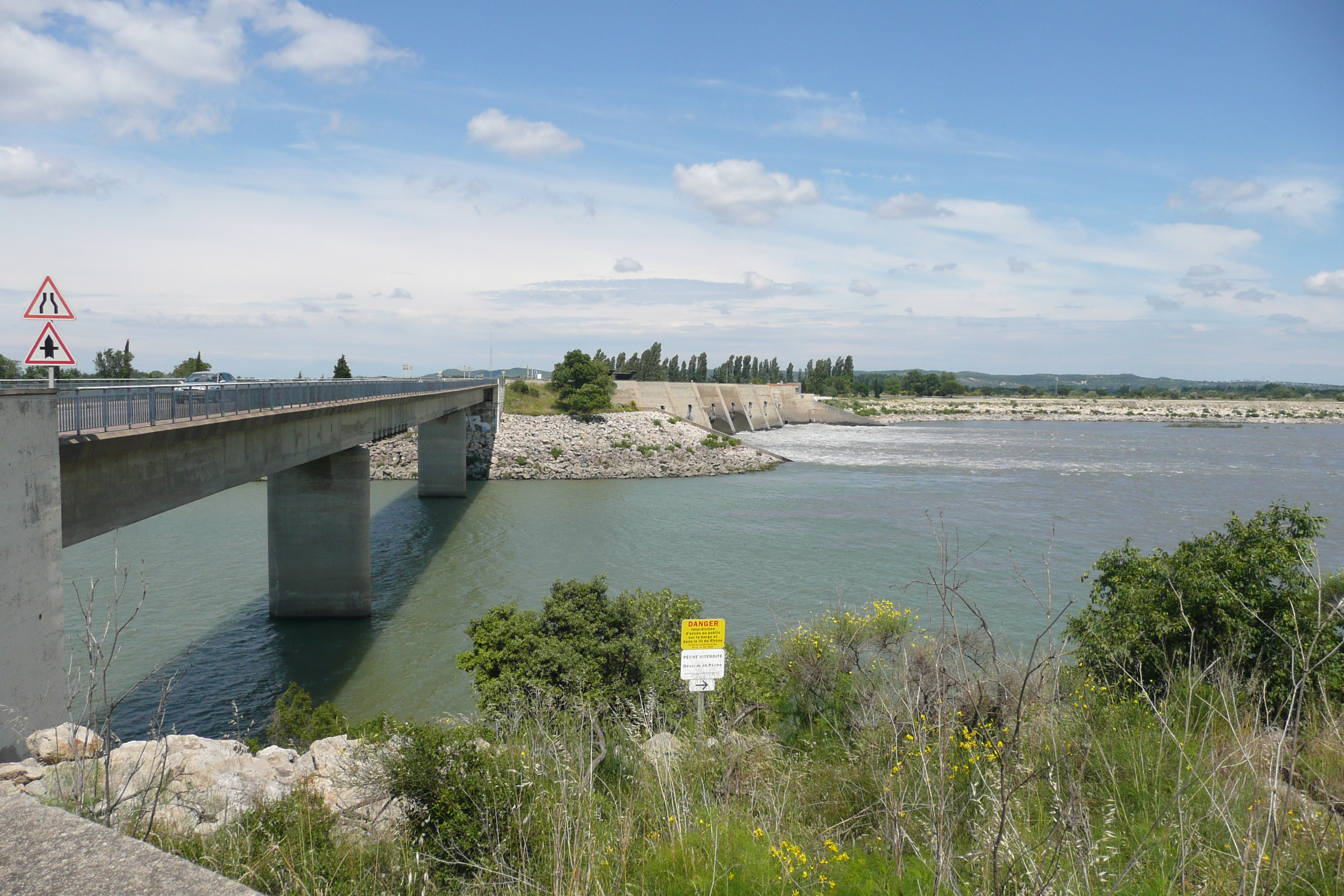 Confluence of the Gardon and the Rhone at Comps (Gard). The Gardon is in the front, crossed by a roadbridge; the Rhone is in the background, crossed by a bridge and dam.